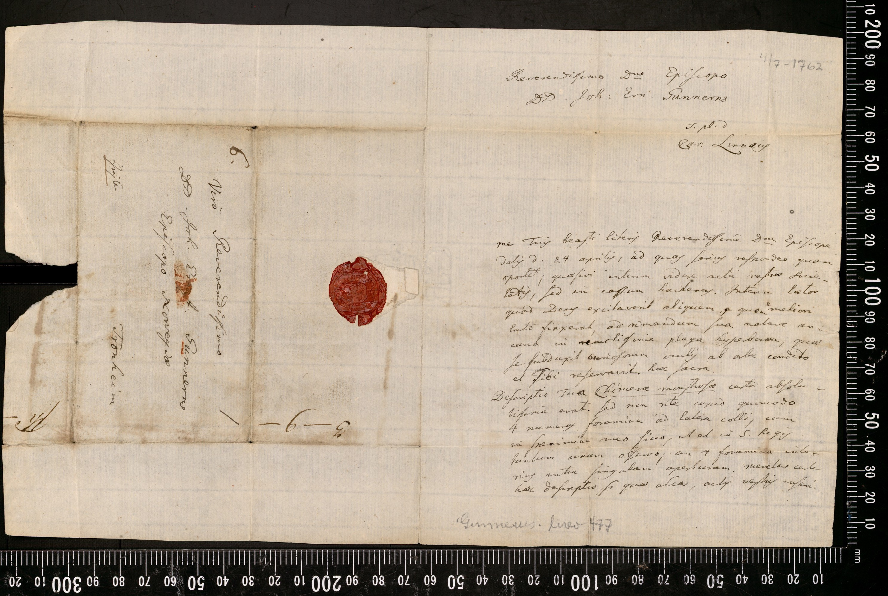 The Swedish botanist Carl von Linnés first letter to the bishop and natural scientist Johan Ernst Gunnerus in Trondheim